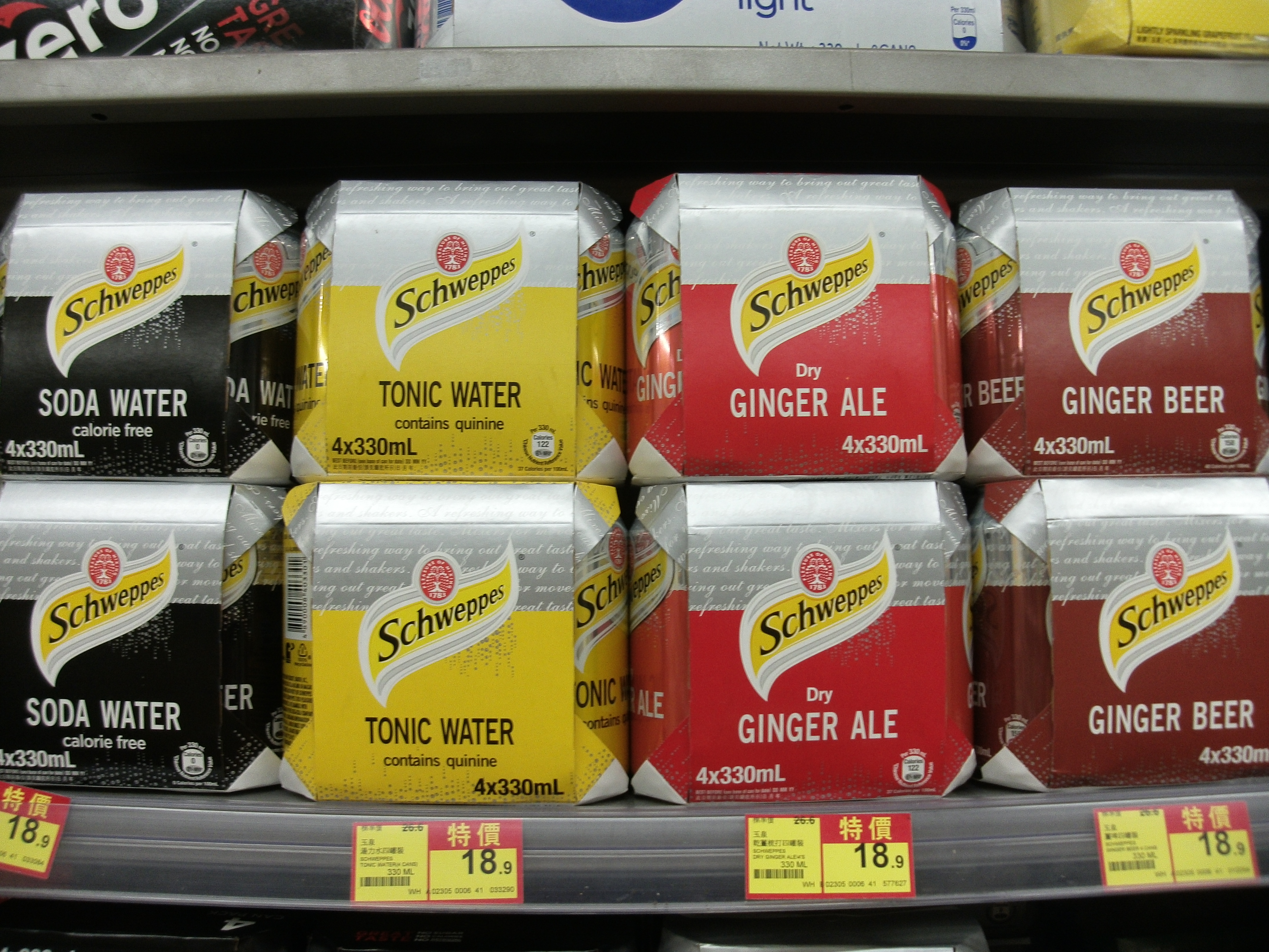 Schweppes sodas